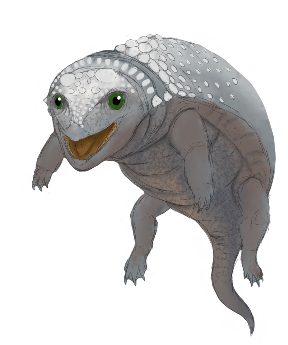 A reconstruction of a semi-aquatic Liaoningosaurus paradoxus.